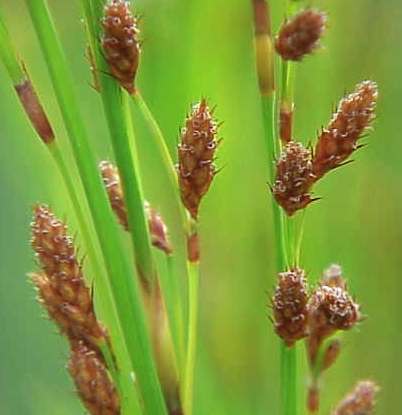 Name Restio tetraphyllus ;Family:Restionaceae Image no. 1 Permission granted to use under GFDL by Kurt Stueber